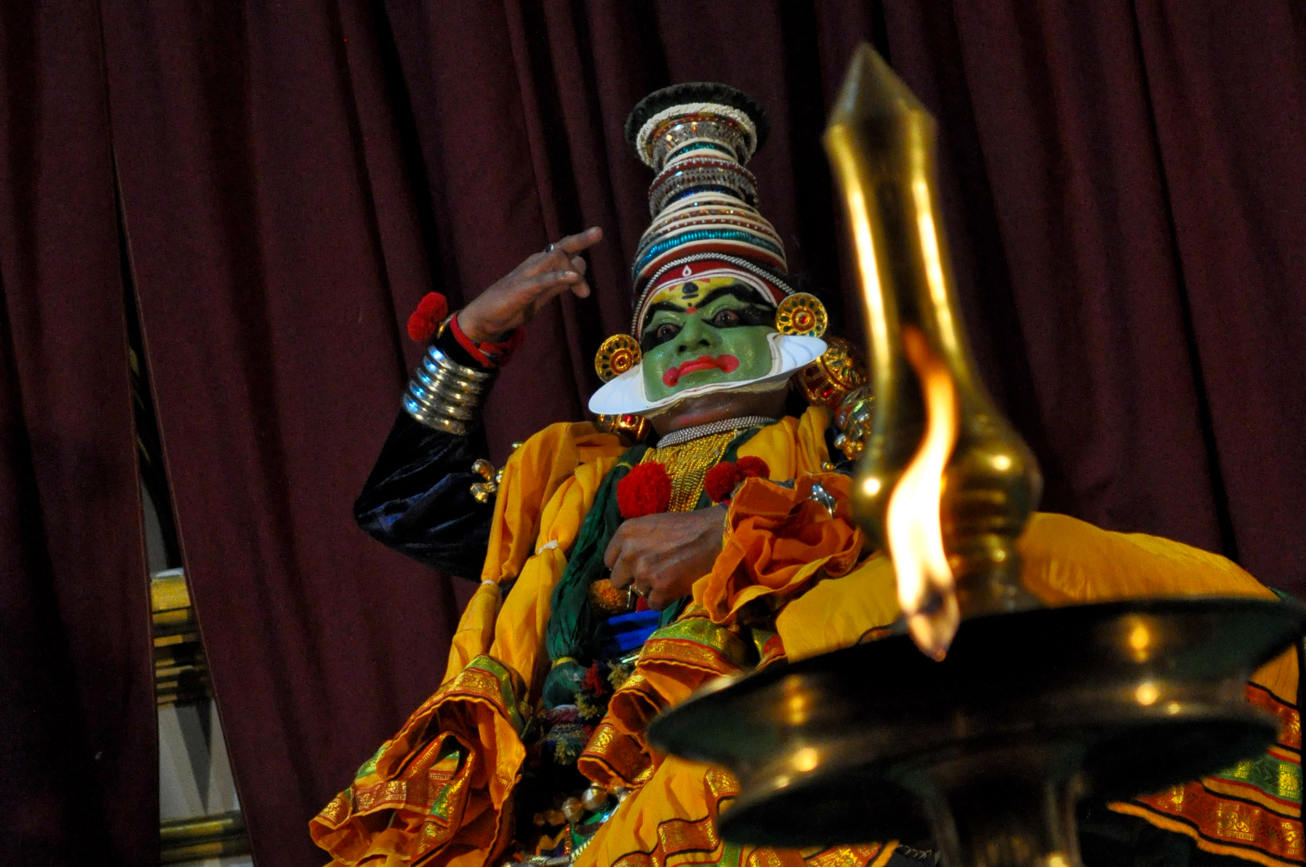 Kathakali performance